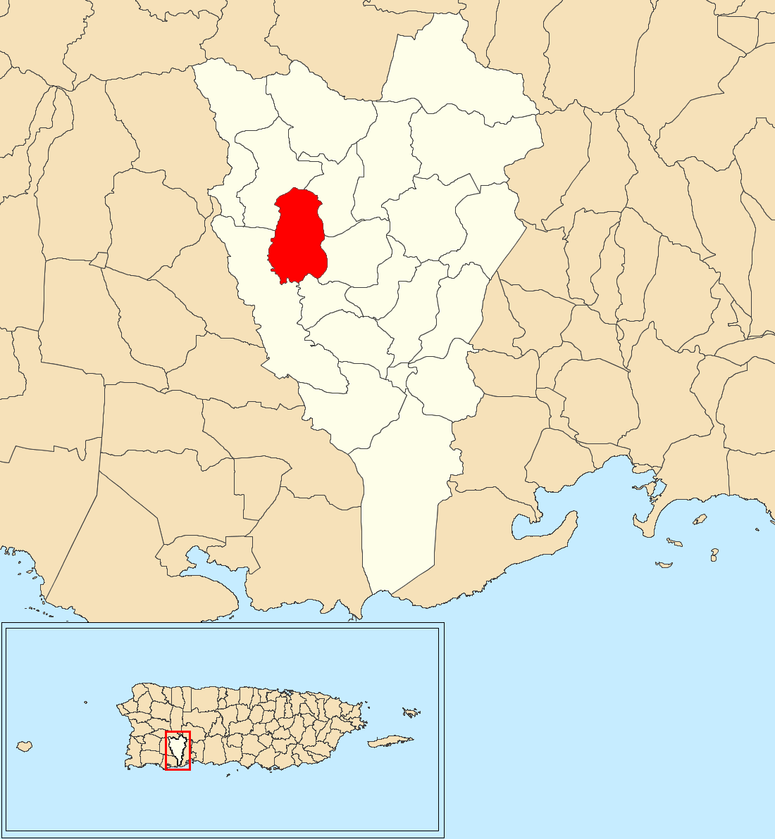 Collores, Yauco, Puerto Rico locator map